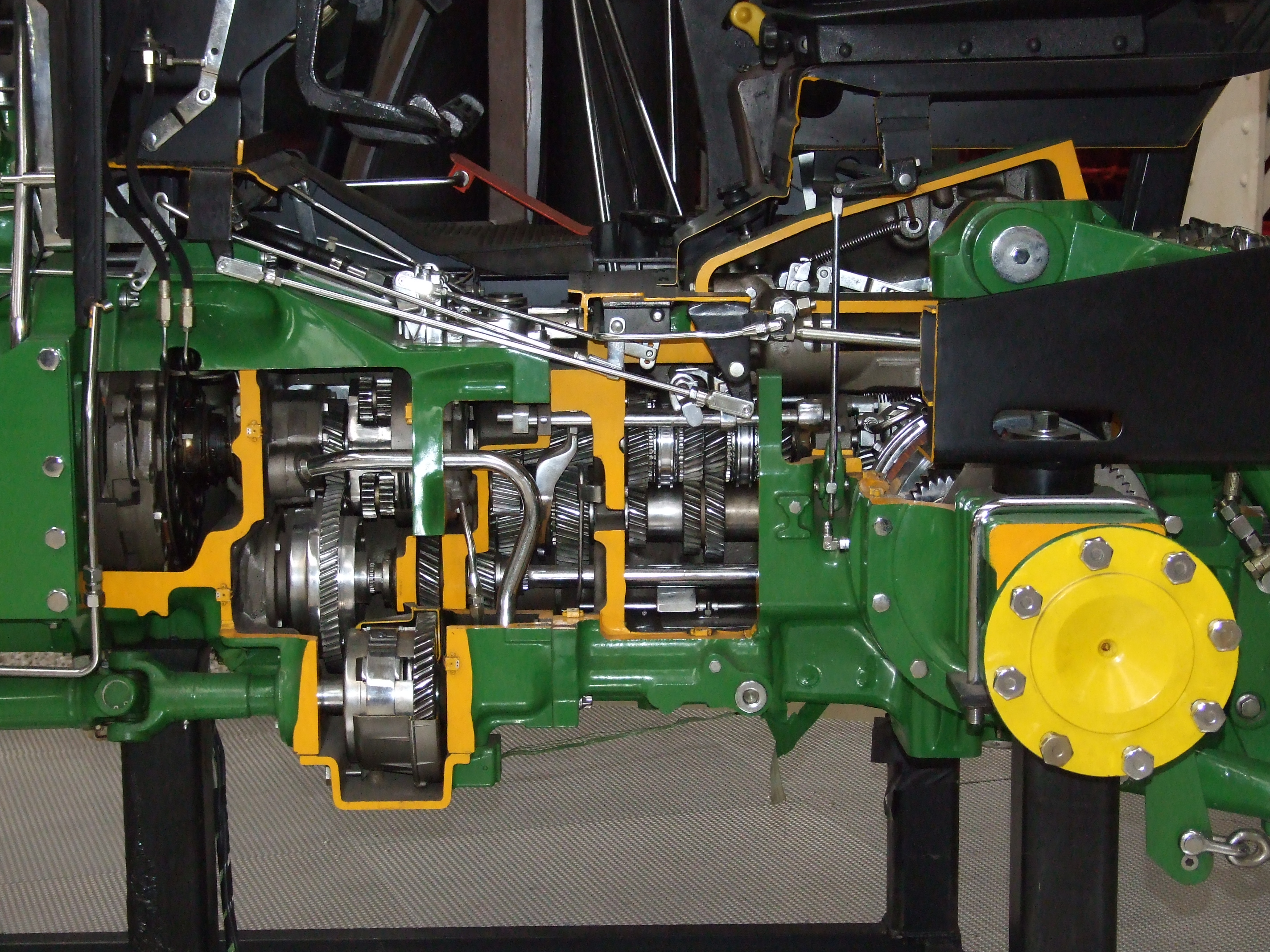 John Deere 3350 tractor cut in Technikmuseum Speyer